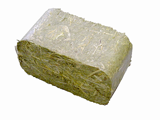 Biomass briquette made of hay. The briquette was pressed with a Briquetting system from the company Ruf (Germany)